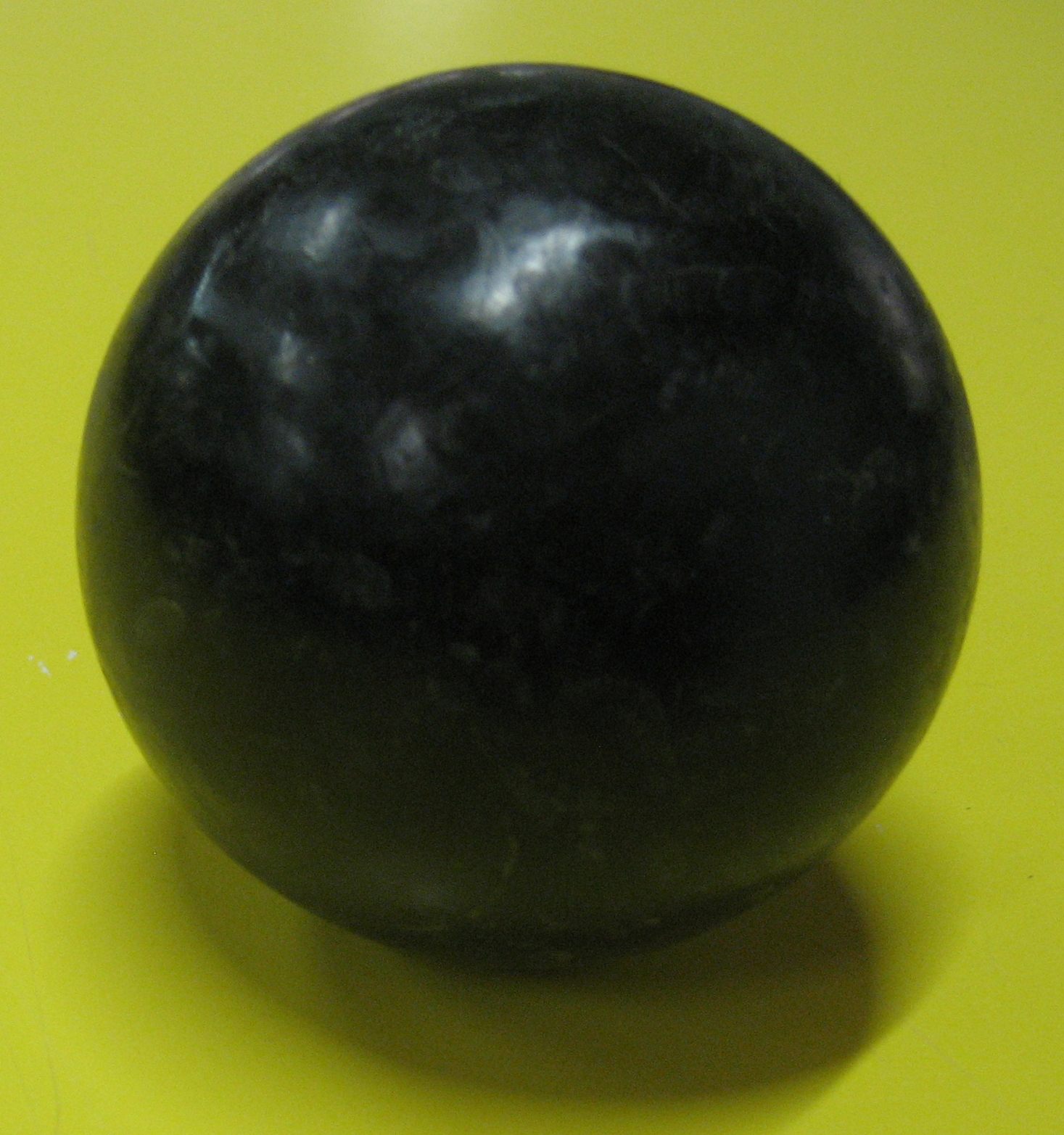 The Roller hockey (Quad) Ball is made of vulcanized rubber, has a 23 cm in circumference, and weighs 155 g